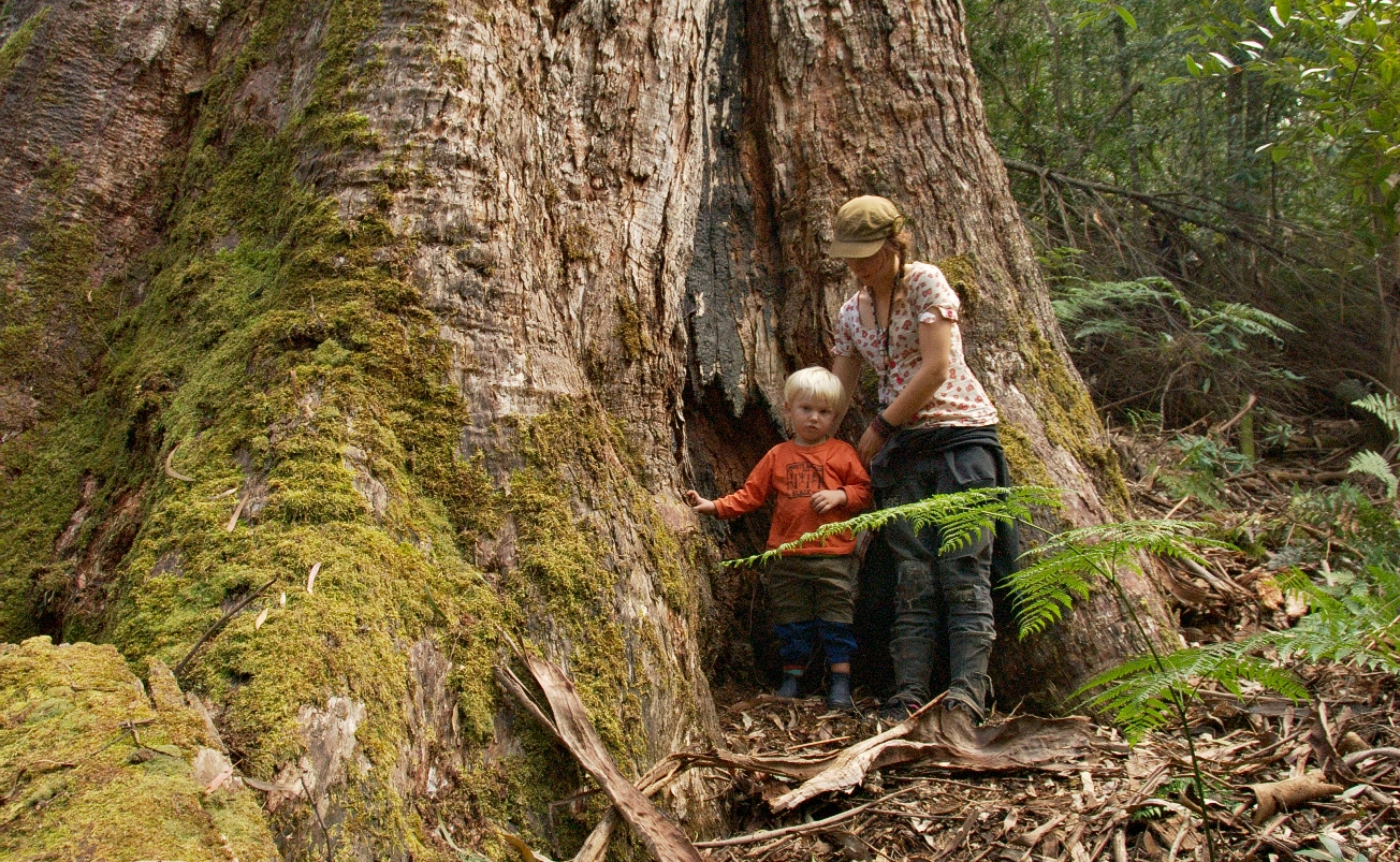 A mother and her son stand in front of "bigfoot" (named by local residents), one of the giant old trees in an unprotected region of Brown Mountain just outside of Errinundra National Park. Near to 37°15′41″S 148°45′30″E / 37.2615°S 148.7583°E